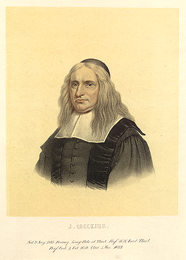 Johannes Coccejus, 17th century theologian and philologist